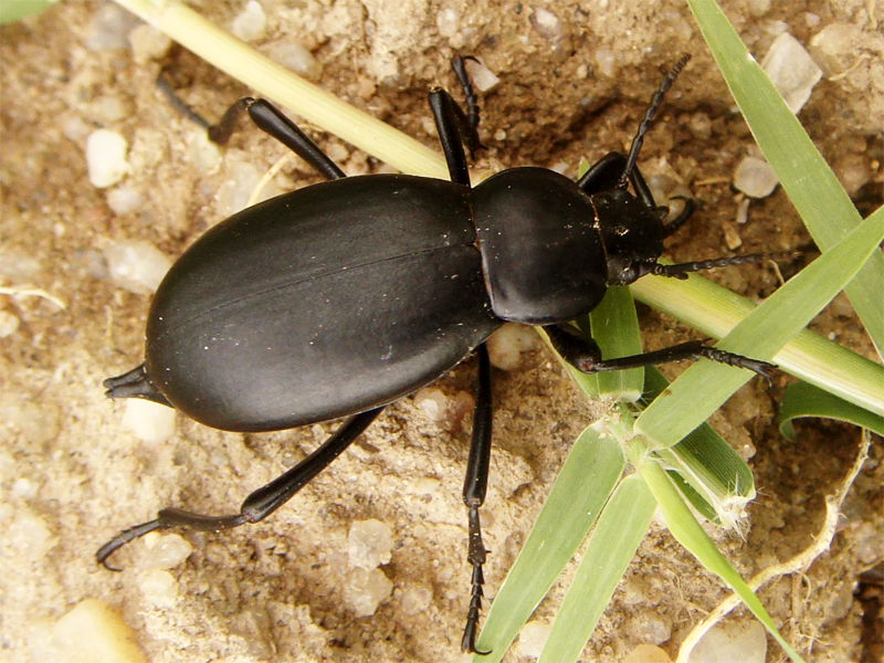 Blaps lusitanica in Ansião, Leiria, Portugal